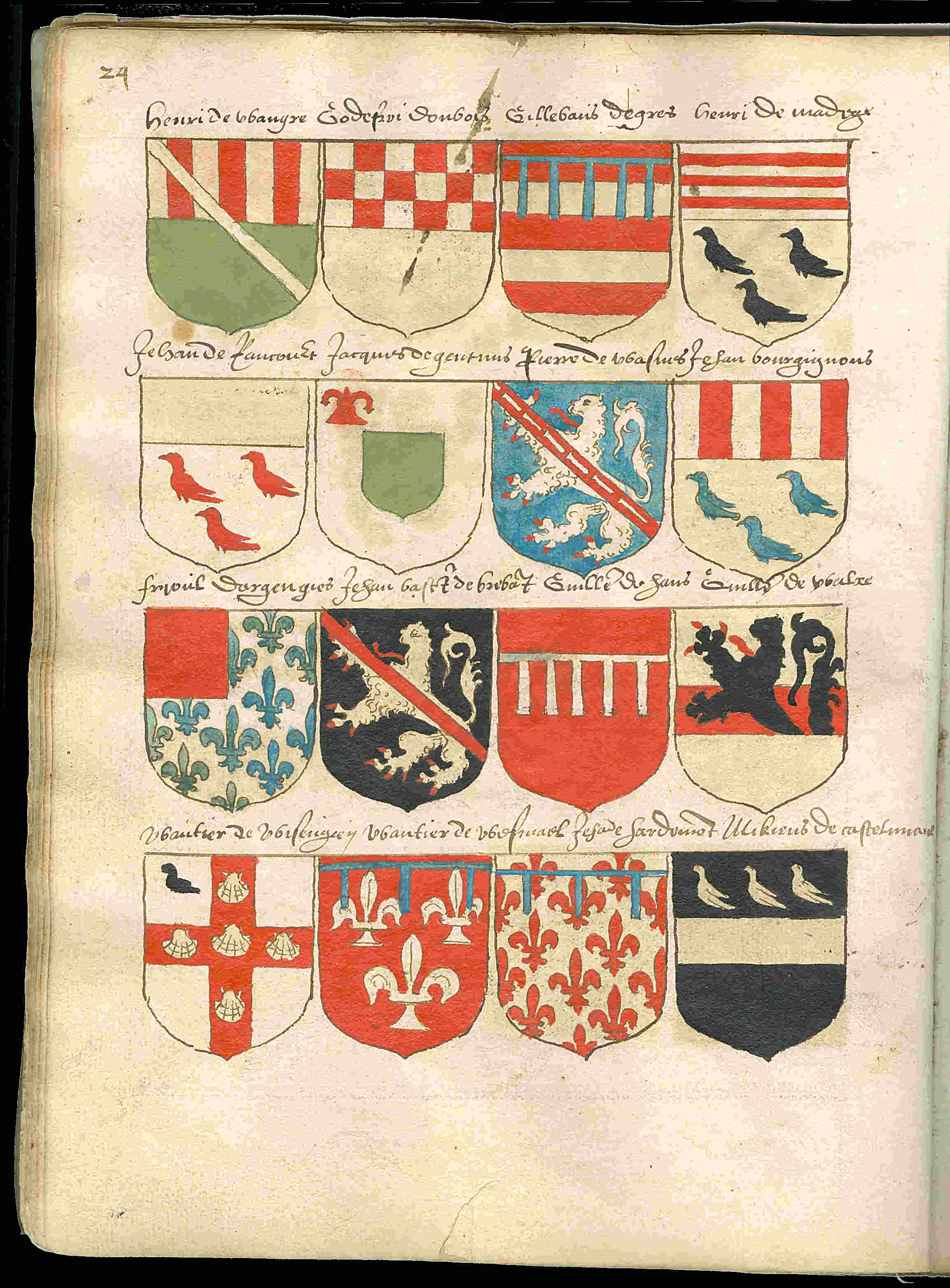 Page 24 from a copy of the Beyeren armorial / Wapenboek Beyeren from ca. 1600. The original Beyeren armorial from 1405 can be viewed at the website of the KB